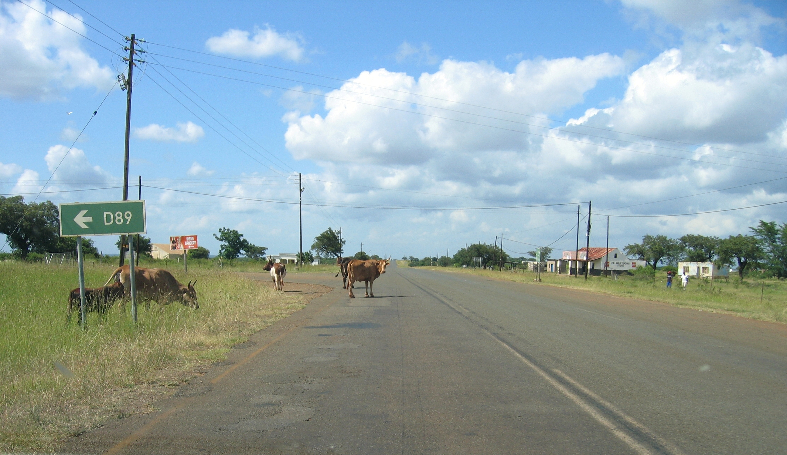 MR8 road before Big Bend, Swaziland